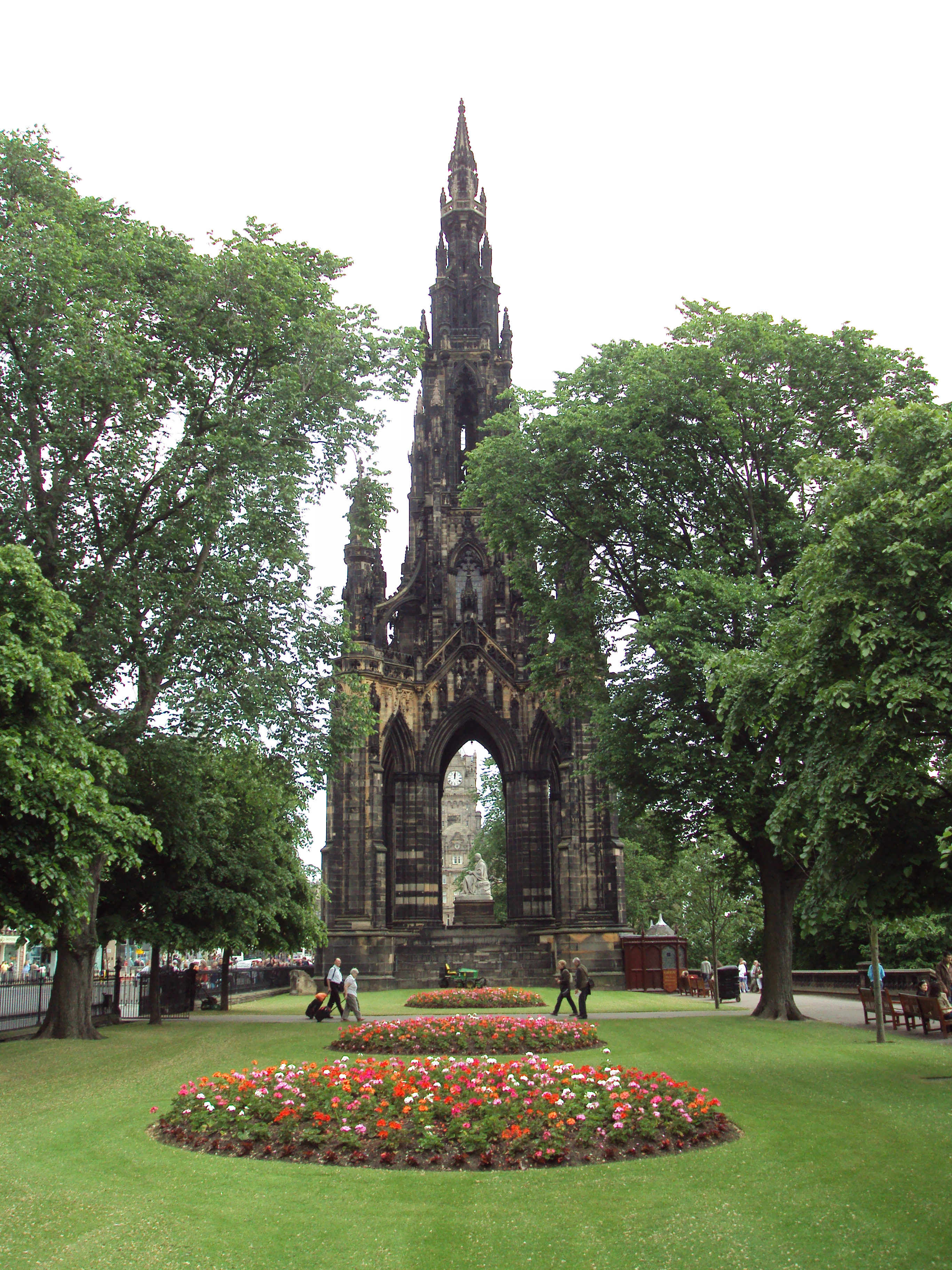 Princes Street Gardens, Edinburgh with the Scott Monument in the background.